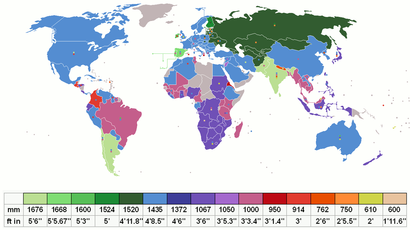 Shows the gauge which is currently most used in each country (main colour), with other significant gauges used depicted as small squares on top of the main colour. Grey indicates no railways.